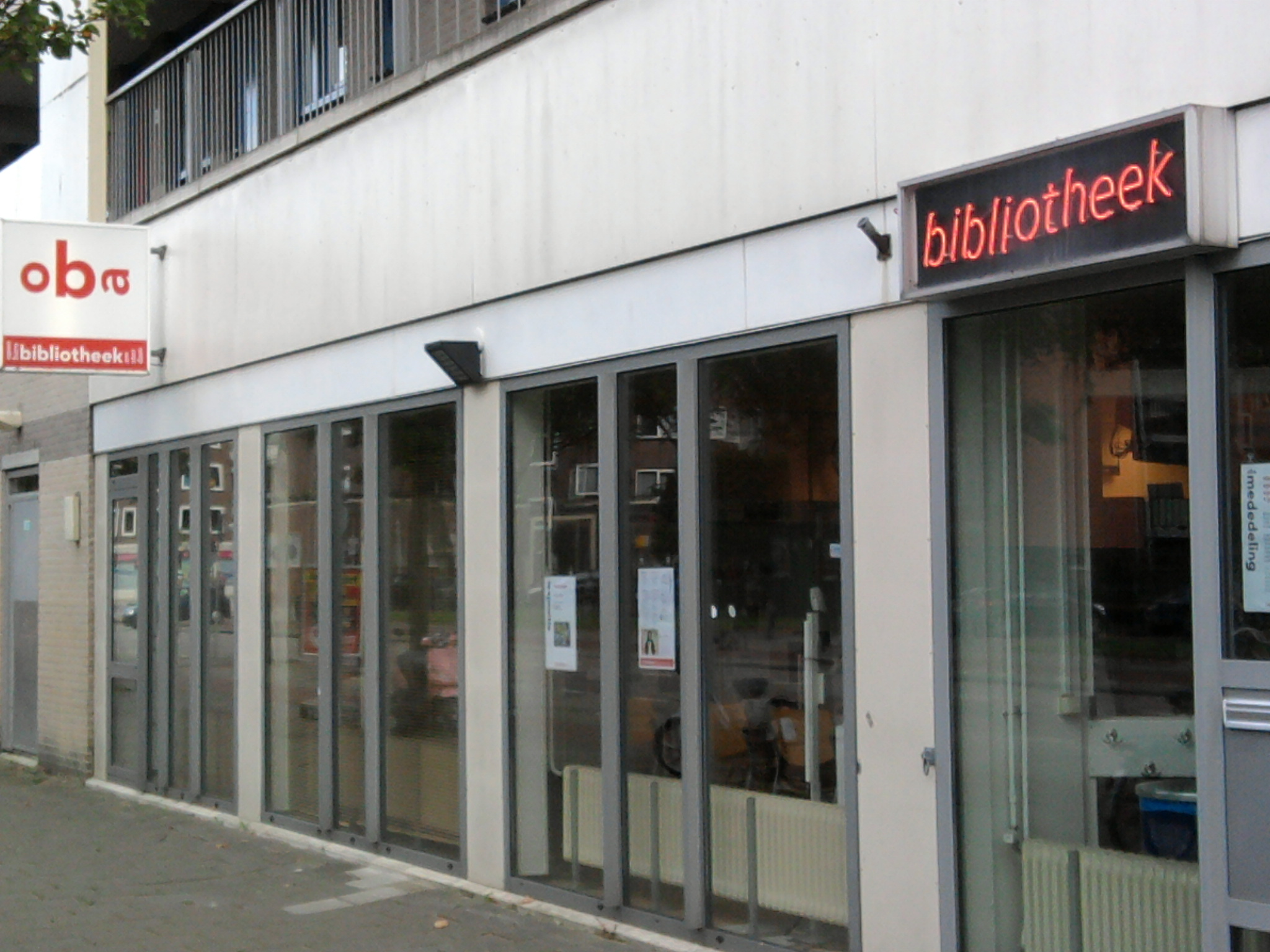 Public library in Amsterdam (Nieuw-West)